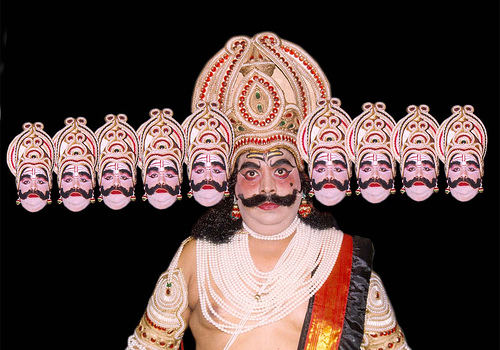 I am an actor & this is my own photo , i played roll of Ravna in Ramlila at Delhi II "Ramlila" - Traditional Indian Performance of Ramayana II Ramlila is the the enactment of the story of Lord Rama. In Ramlila the life of Rama is shown in the form of a series of plays. The complete life story of Rama is covered in ten days. It is one of the most popular festivals of North India. Ramlila is associated with the Vijayadashmi (Dussehra) celebrations in late Sept. & early Oct. and also with Ramnavami, the birthday of Lord Rama. The Ramlila ends on Vijaya Dashami - the day of victory when Rama defeats the Demon King Ravana. Ramlia is India's most famous theatrical experience. Historically, this staging of the Ramayana is based on the Ramacharitmanas, one of the most popular sacred text of Hindu religion. Ramacharitmanas was composed by Tulsidas in the sixteenth The festival of Ramlila ends with Dussehra. It is performed across the whole of northern India during the festival of Dussehra. These Ramlila shows are very popular in Delhi, Uttar Pradesh, Madhya Pradesh and to an extent in Maharashtra. The most representative Ramlilas are those of Ayodhya, Ramnagar and Benares, Vrindavan, Almora, Sattna and Madhubani.